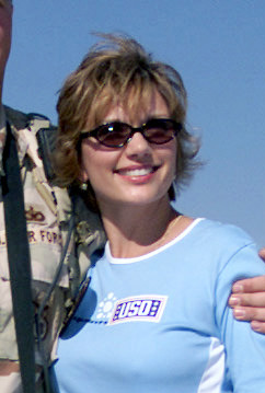 Technical Sergeant (TSGT) Stephan Coulston (left) gets a hug from actress Teryl Rothery during a visit in support of Operation ENDURING FREEDOM. The original finding aid described this photograph as: Subject Operation/Series: ENDURING FREEDOM Country: Unknown Scene Major Command Shown: CENTCOM Scene Camera Operator: TSGT Michael R. Nixon, USAF Release Status: Released to Public